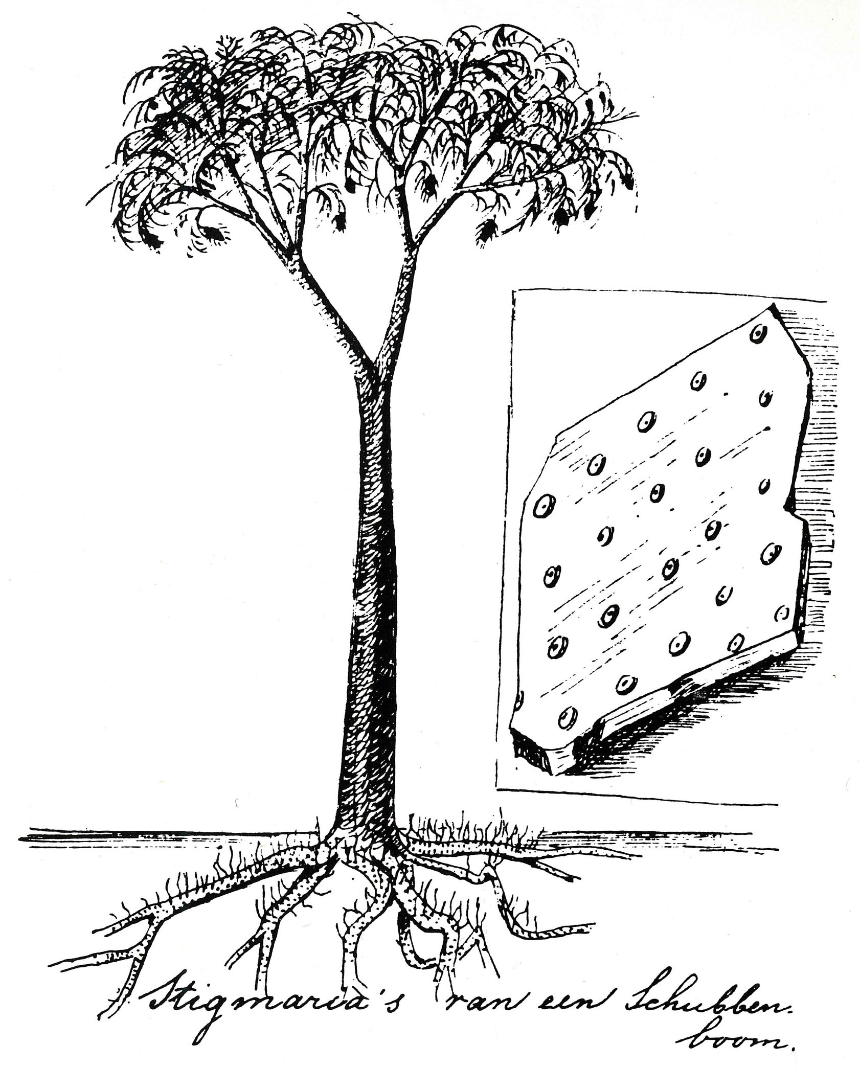 Eli Heimans' reconstruction (1911) of the Carboniferous tree Lepidodendron, known from fossil "Stigmaria" (fossil roots) in Limburg. Drawing also shows a piece of fossil bast.